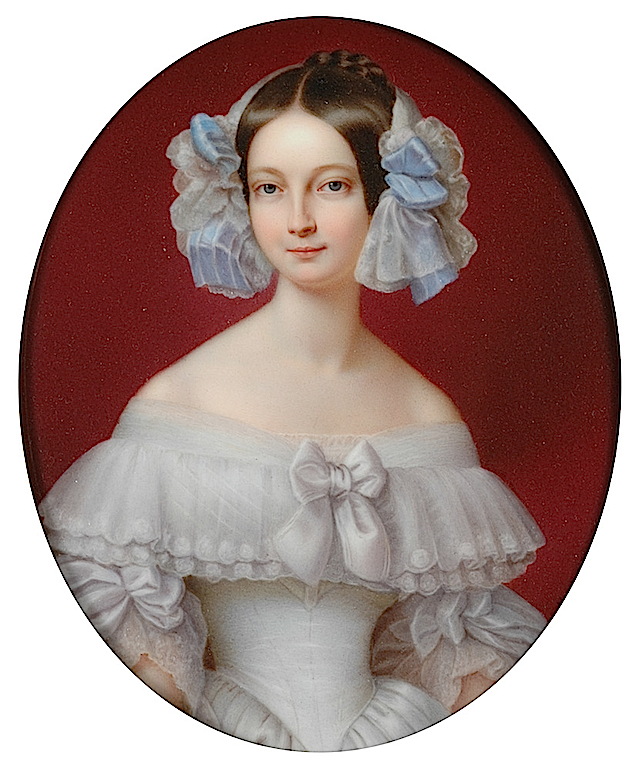 Helene of Mecklenburg-Schwerin (1814-1858), the later Duchess of Orléans